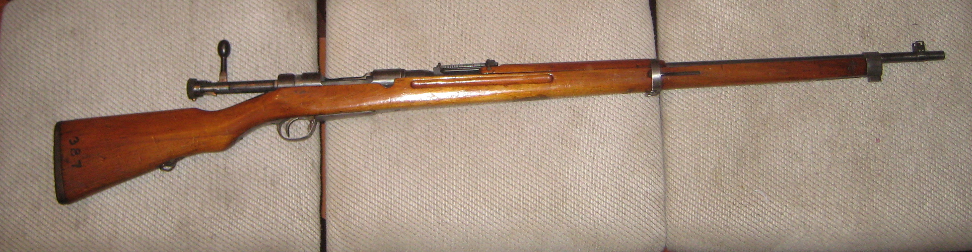 Arisaka type 38 rifle chambered in 6.5 mm.